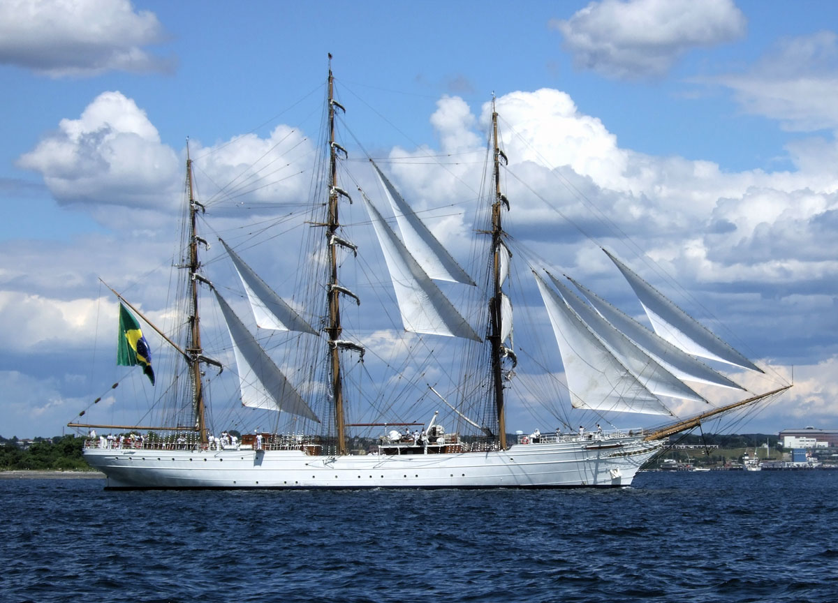 Brazilian Tall Ship Cisne Branco photo taken by Bruce Bodner 1 July 2007 at Newport Rhode Island USA